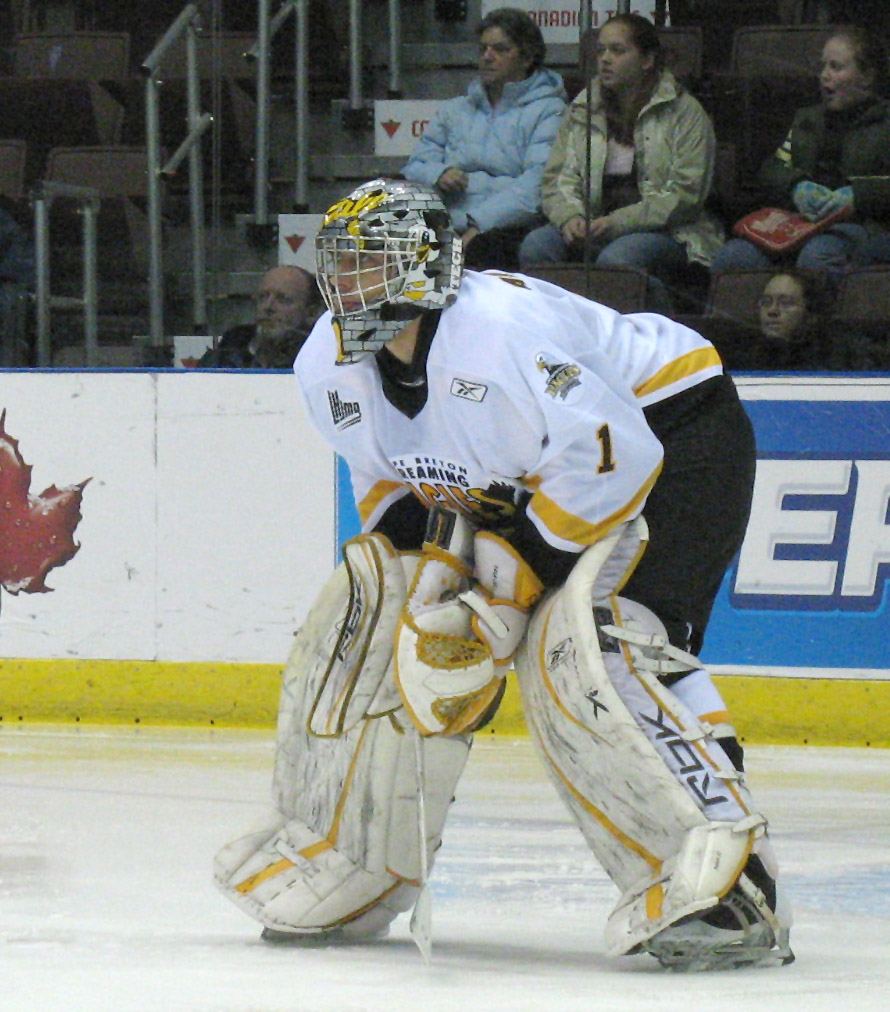 Ondřej Pavelec playing for the 2006-2007 Cape Breton Screaming Eagles, this game against the St. John's Fog Devils